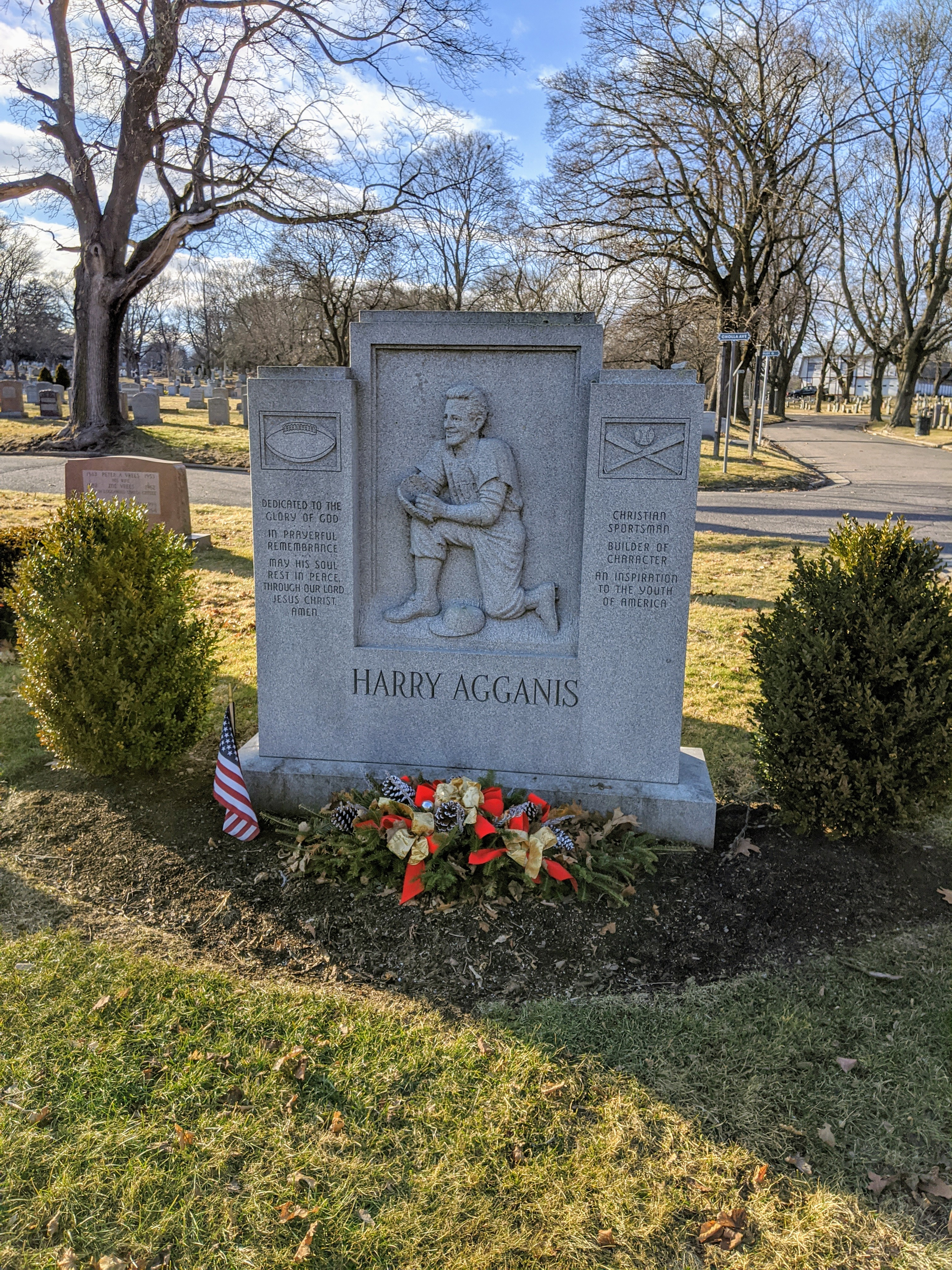 The grave of Harry Agganis, Boston Red Sox player in Pine Grove Cemetery in Lynn, Massachusetts.